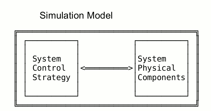 This is a drawing showing the elements present in an Automation Master simulation model.